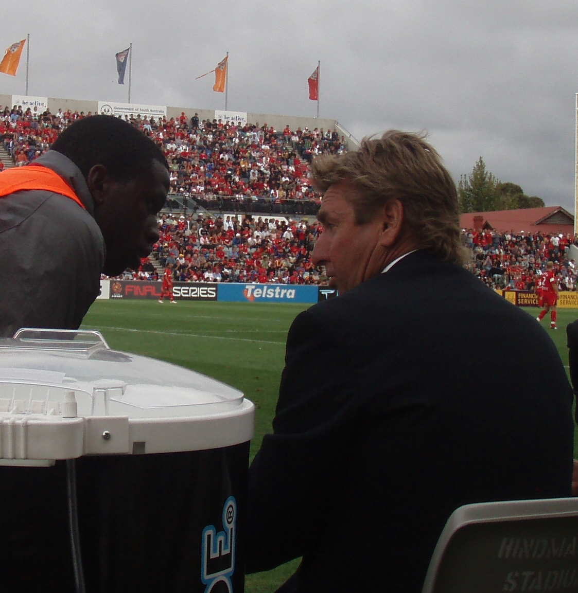 Chad Lofts, Photo taken at Adelaide vs Melbourne on the 28th of January, 2007